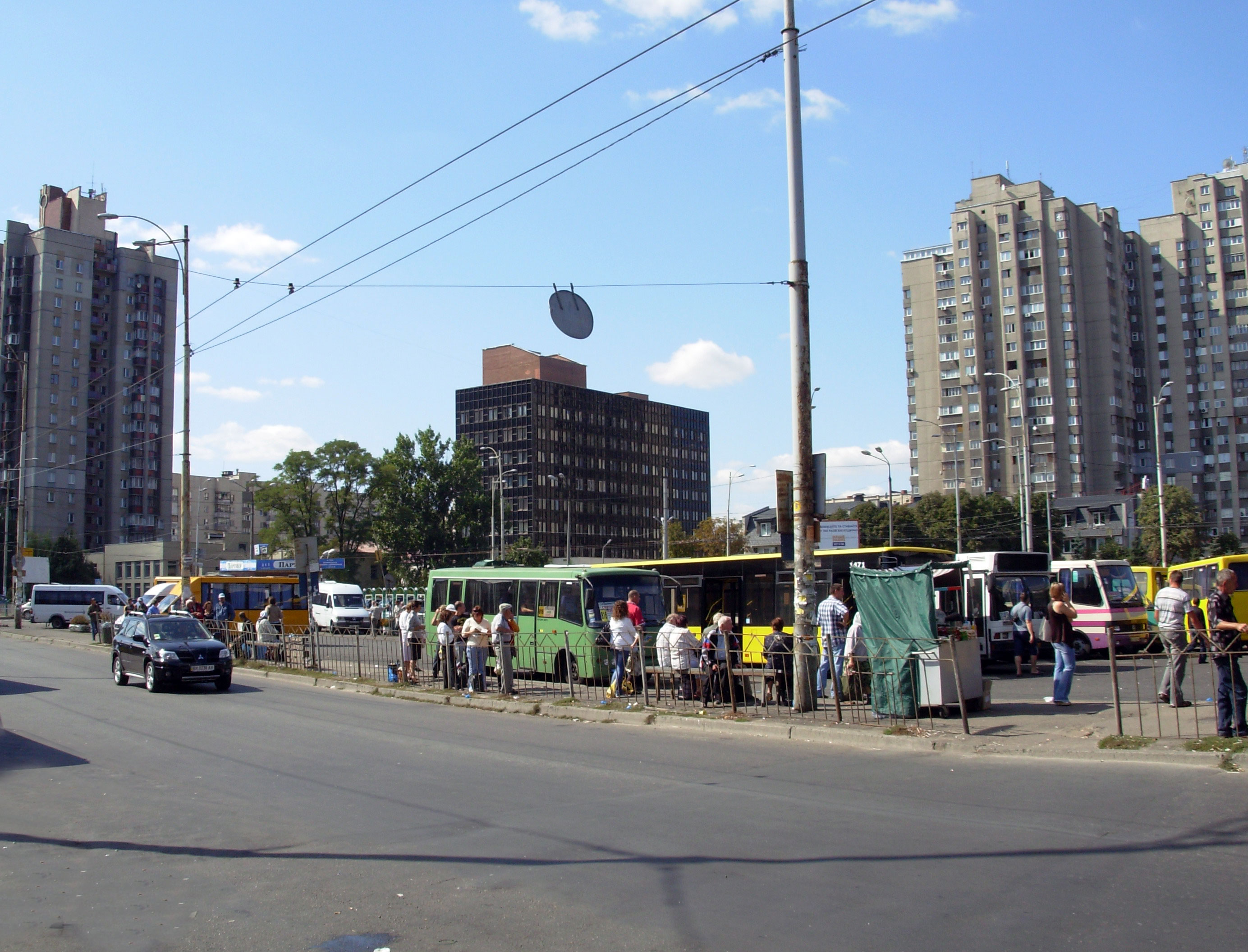 Heroiv Bresta Square in Kyiv